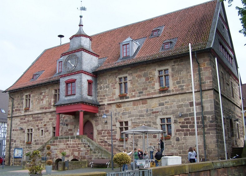 Volkmarsen Town hall